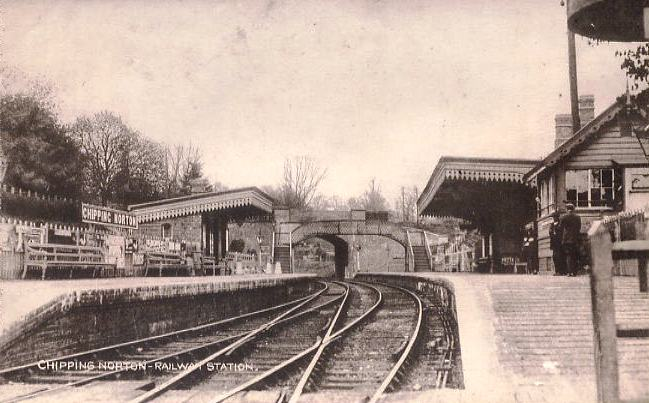 Chipping Norton Railway Station, Oxon